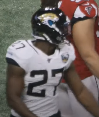 Leonard Fournette in 2019